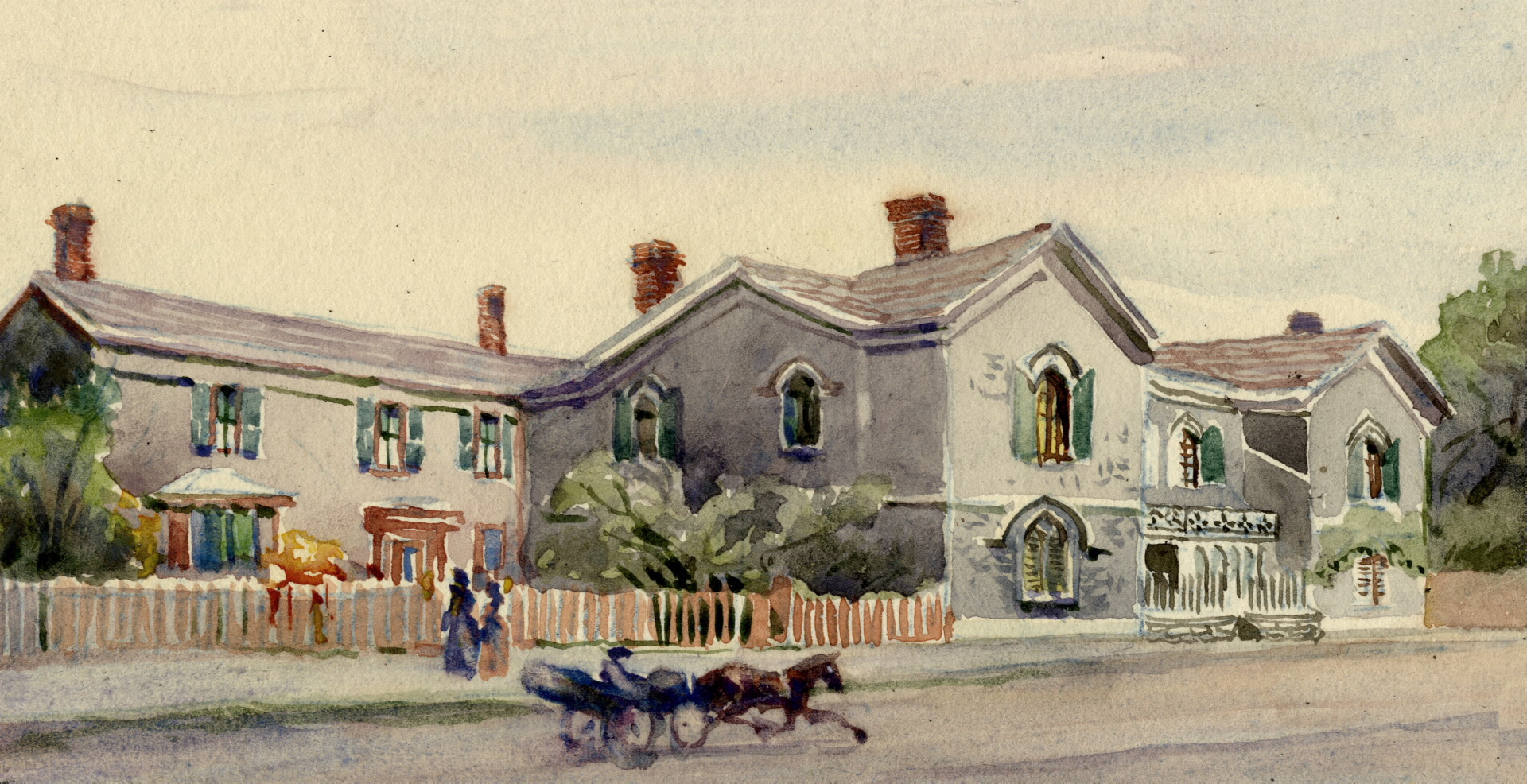 An 1924 painting of Berkeley House, based on an 1888 drawing. This image is available from the Toronto Public Library This tag does not indicate the copyright status of the attached work. A normal copyright tag is still required. See Commons:Licensing for more information. English | français | +/−